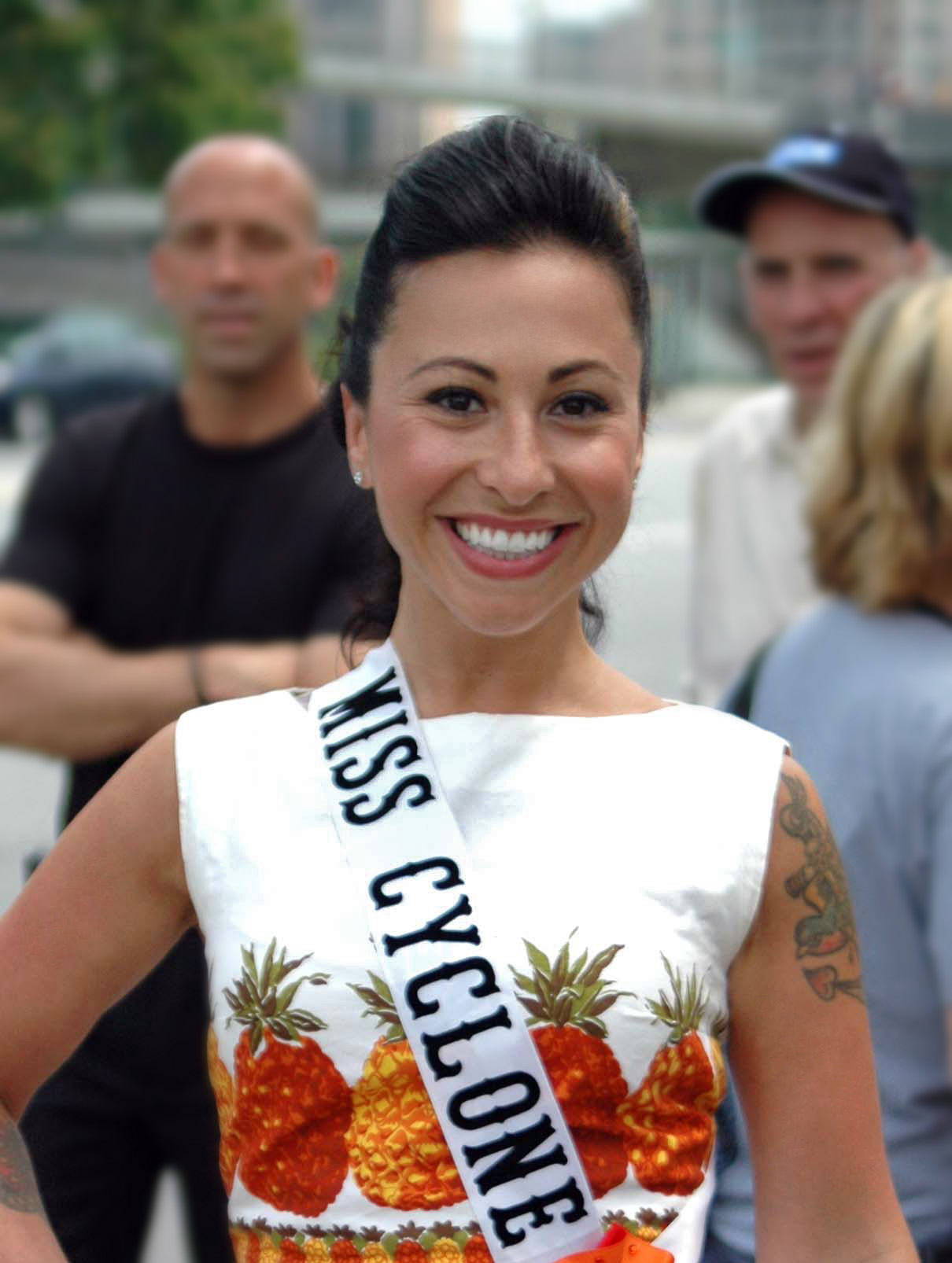 Angie Pontani during the festivities surrounding the Cyclone Rollercoaster's 82 birthday celebration, June 26, 2009 at Coney Island.